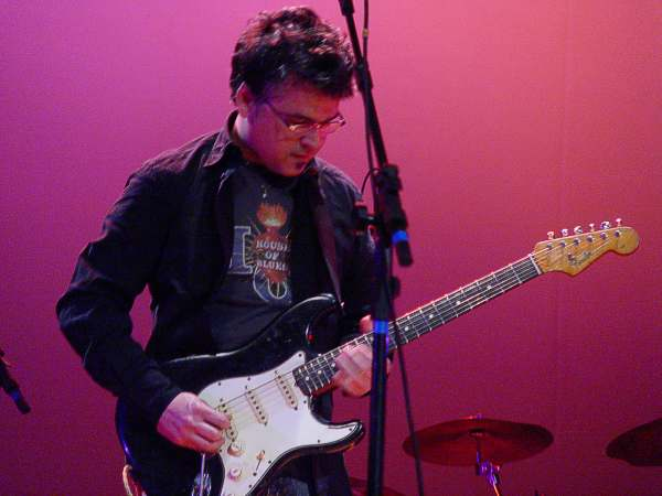 Solon Fishbone